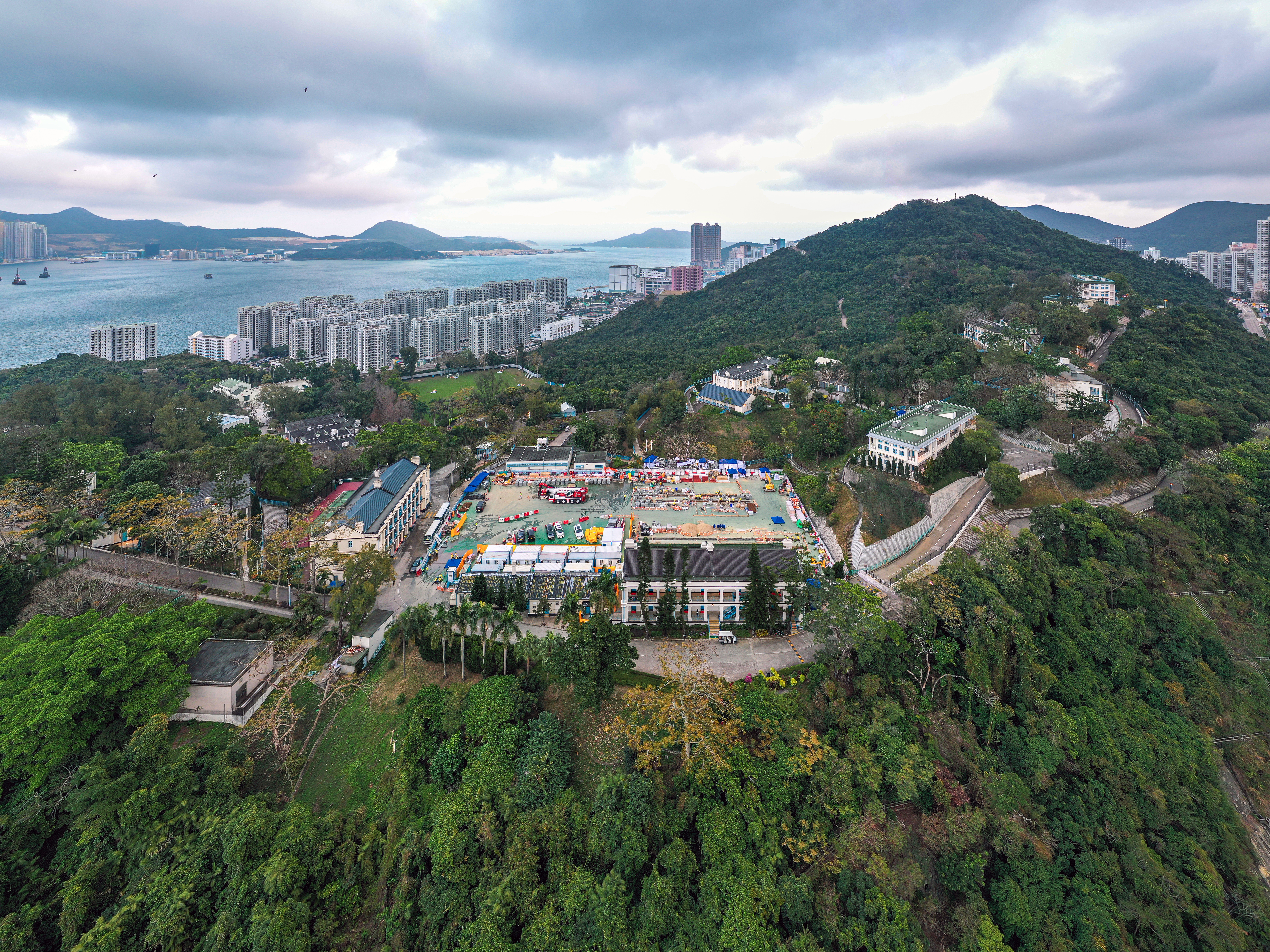 Lei Yue Mun Park and Holiday Village The largest quarantine site in Hong Kong is being built at full speed, with completion expected in one to two months as the need to isolate people grows amid the coronavirus outbreak.